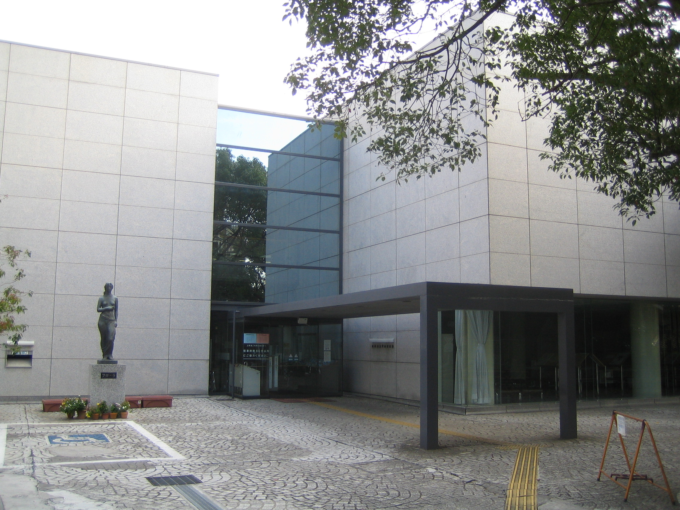 Hamamatsu City Central Library (浜松市立中央図書館), in Hamamatsu, Shizuoka, Japan